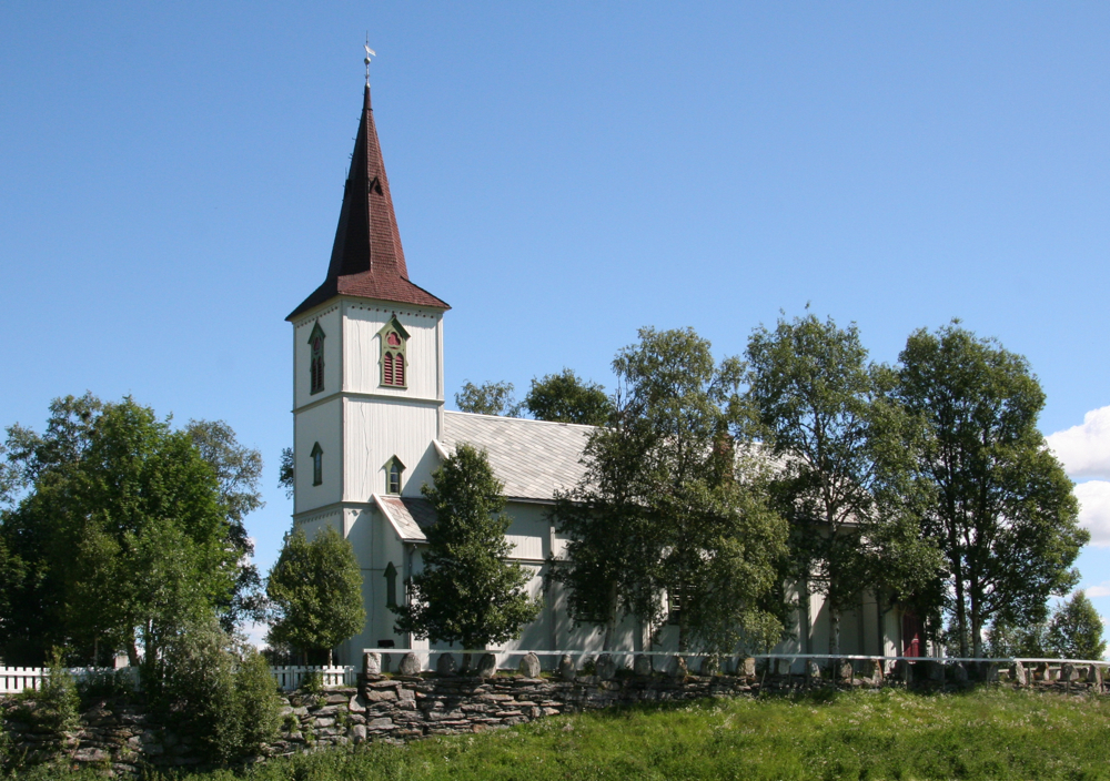 Vingelen Church in Hedmark, Norway